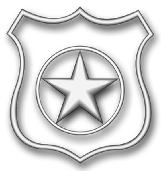 US Navy Master-at-Arms (MA). A star pointing up in a cir­cle, within a shield.